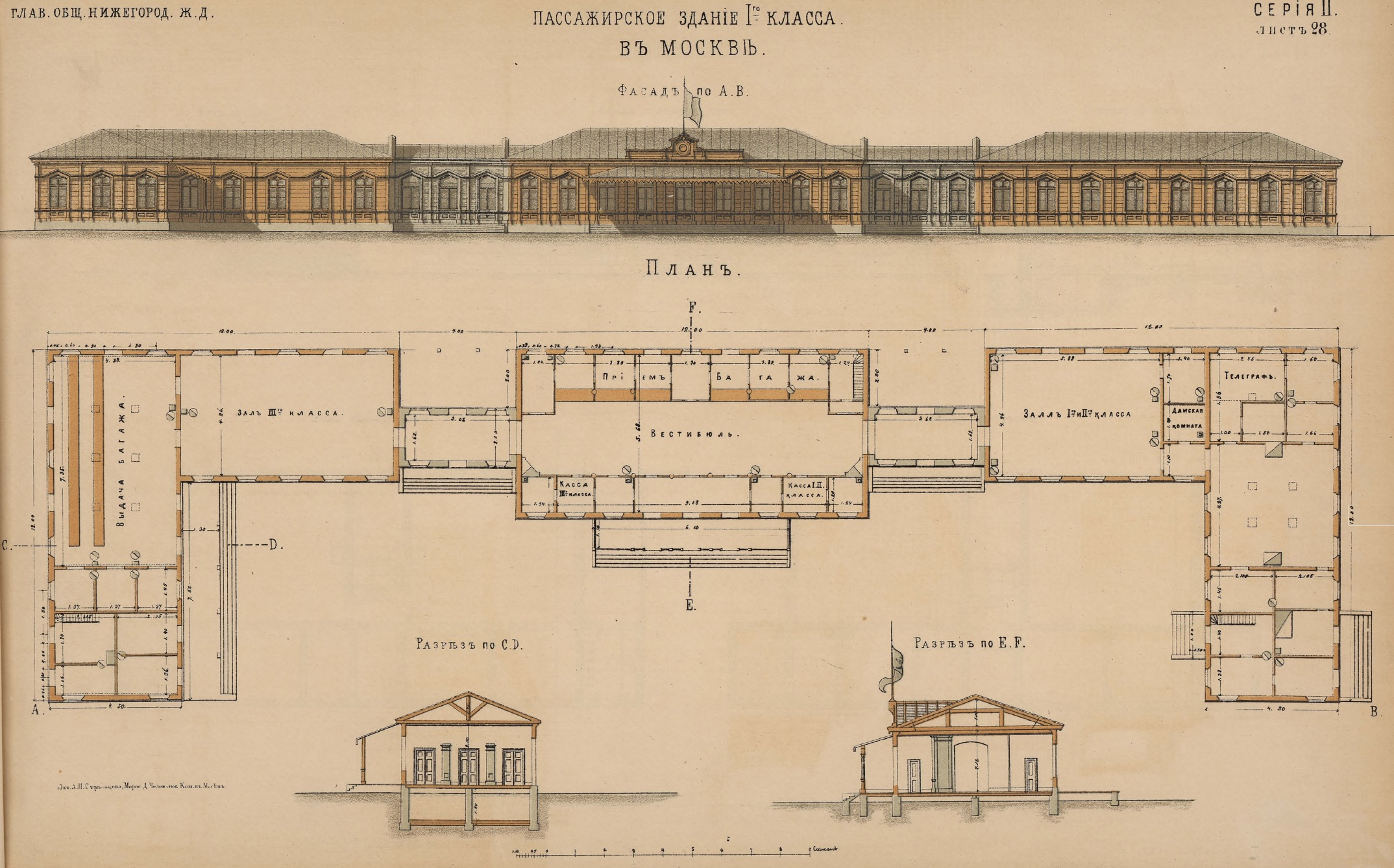 Moscows station. Moscow-Nizhny Novgorod railway